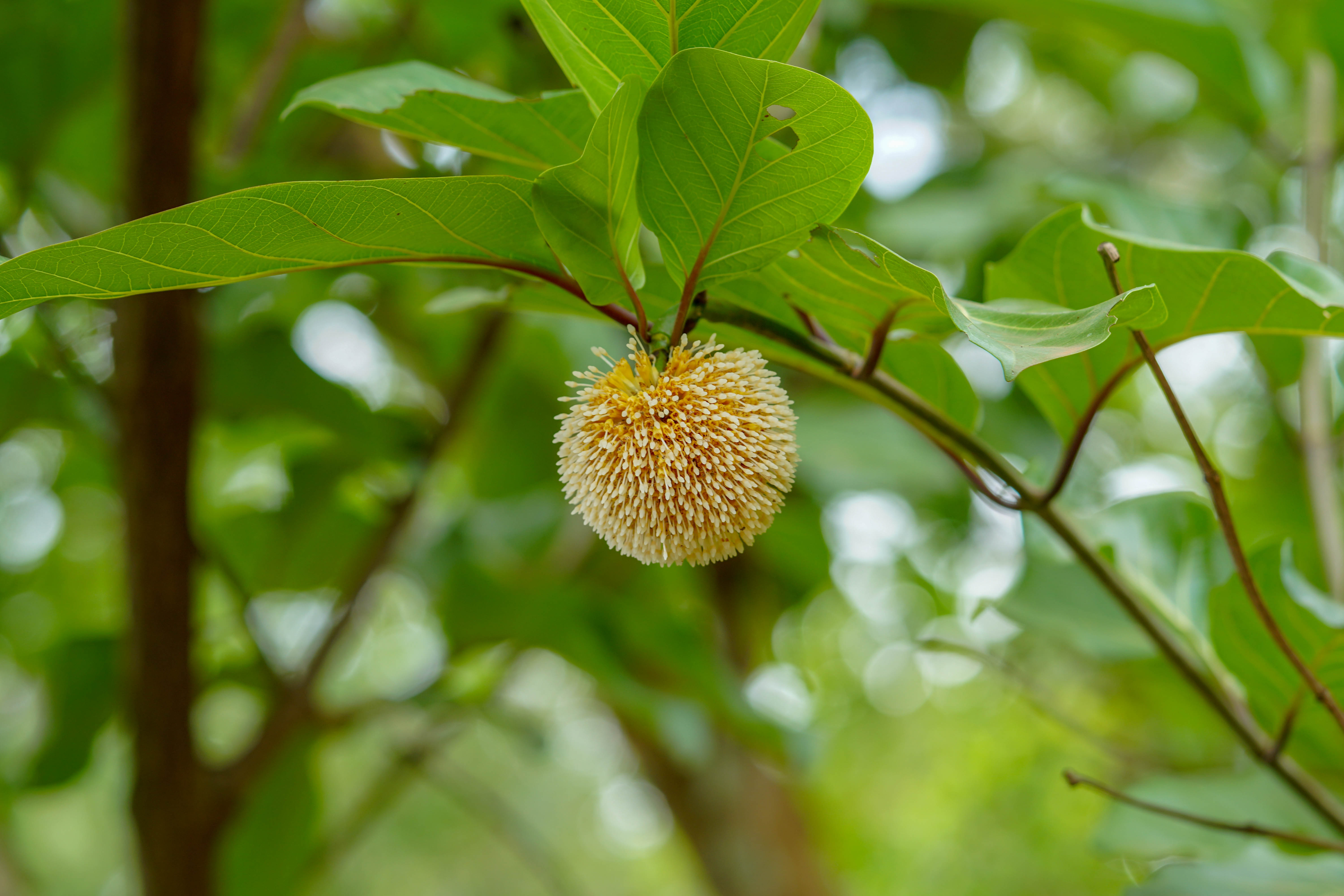 Flower of Sarcocephalus latiflius (Forest Reserve of "Trois Rivières")